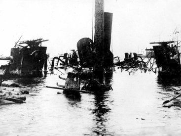 View aboard the wreck of the Spanish Navy cruiser Castilla after the Battle of Manila Bay in 1898.